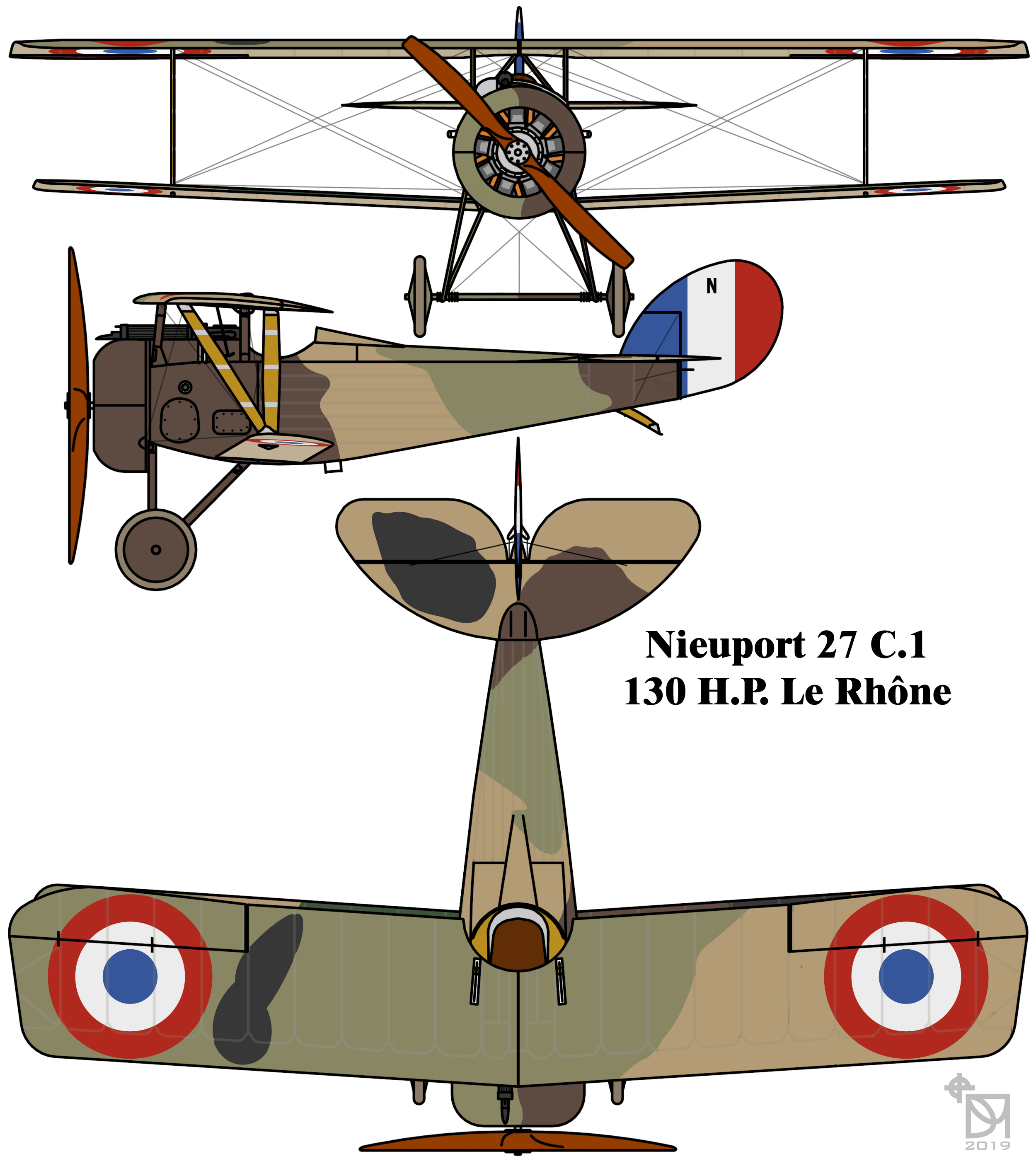 Nieuport 27 C.1 French First World War single seat fighter colourized drawing in 5 colour camouflage pattern used from late 1917 until the end of the war on combat aircraft.